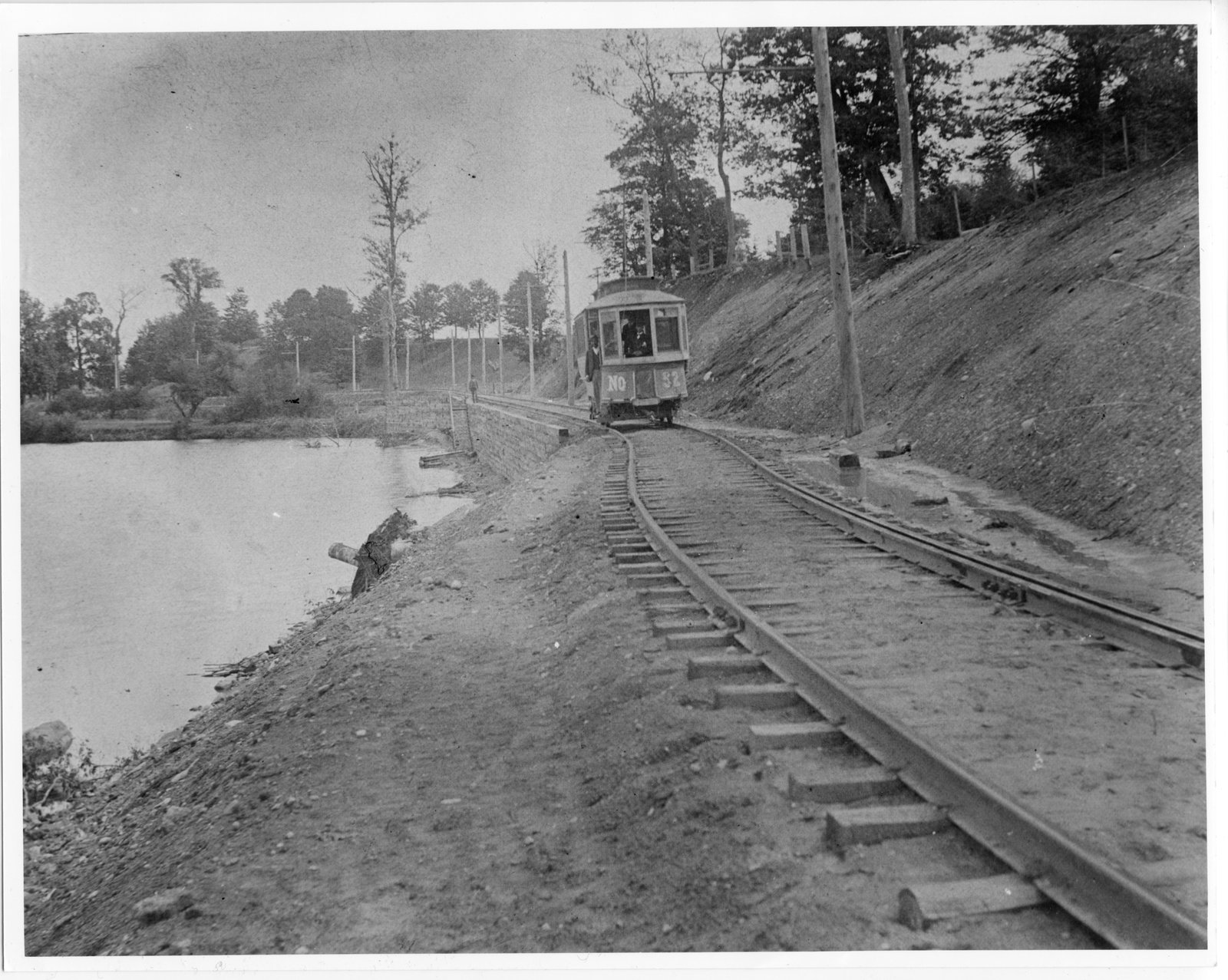 London Street Railway, Streetcar on the Springbank Line behind Woodland Cemetery, London, Ontario. Original caption: "Description: Glossy print of a streetcar on the Springbank line, passing by Woodland Cemetery on the right and the Thames River on the left. The number 32 is on the front of the car. The motorman and passengers can be seen in the car. Notes: The entire Springbank line was completed by May 24, 1896 and double tracked by May 21, 1897. (Source: "The History of the London Street Railway Company (1873-1951)" by Gerald Alfred Onn.) Latitude: 42.9709878114415 Longitude: -81.2904446373367 : Recommended Citation:Ivey Family London Room, London Public Library, London, Ontario, Canada Reproduction Notes:London Room Photograph Archives - PG F526"